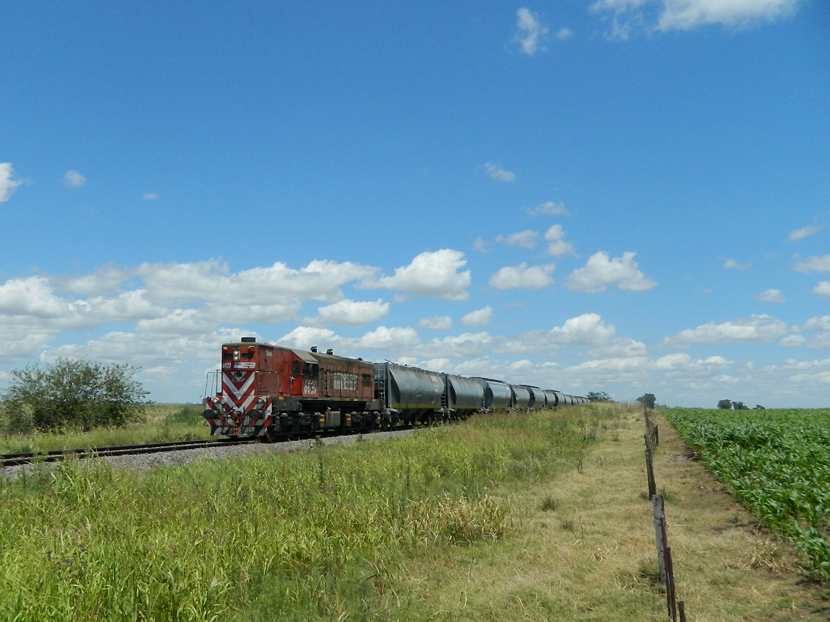 A Ferroexpreso Pampeano freight train on the General Sarmiento Railway in rural Argentina.